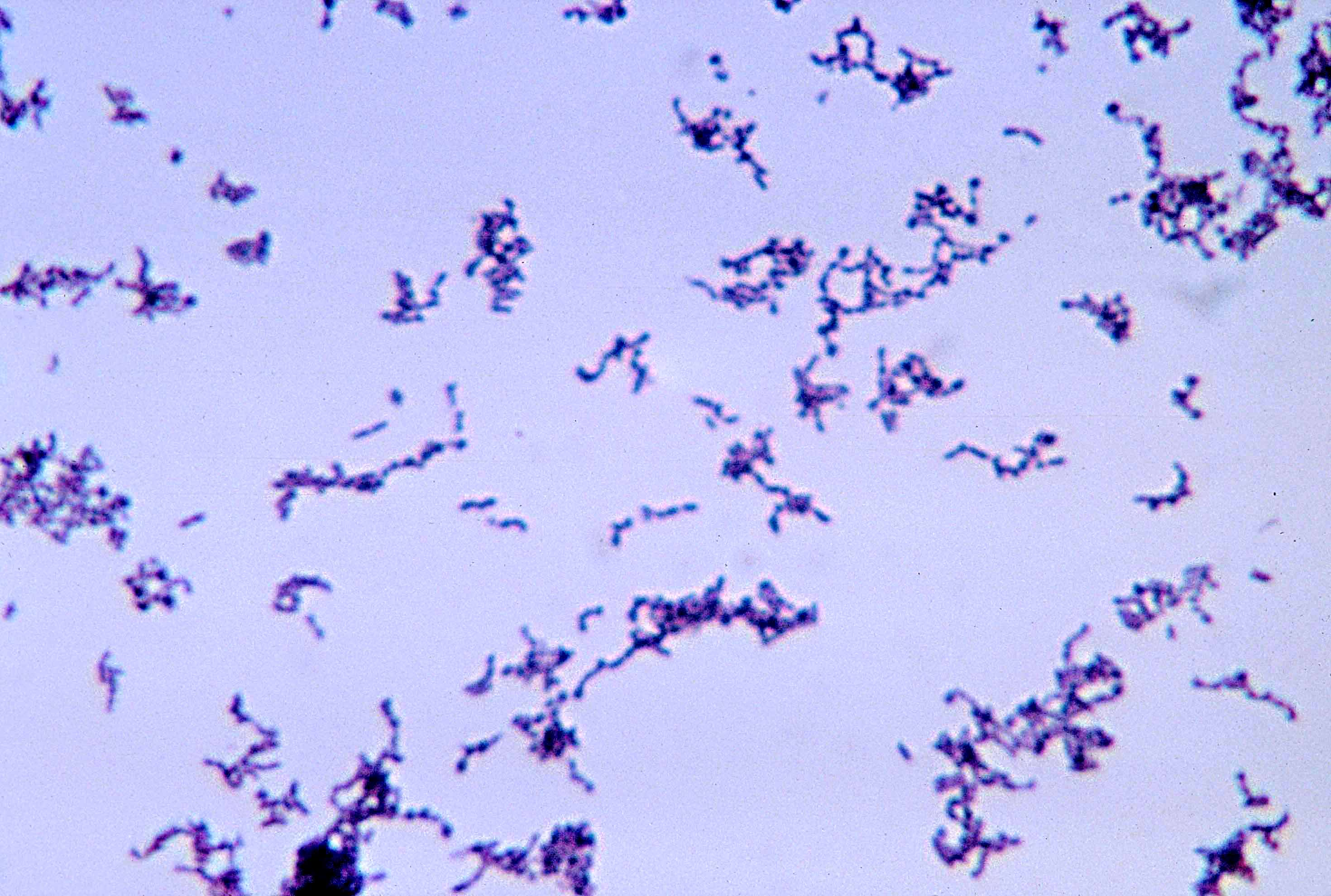 Propionibacterium acnes grown in thioglycollate medium. Converted by Bob Blaylock into a much more compact and efficient .JPG from the 16.7-megabyte TIF in which it was previously submitted.